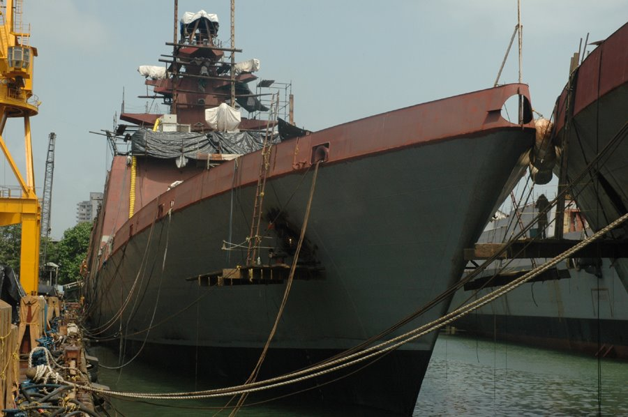 The INS Shivalik, readying for commissioning in December 2008. She was finally commissioned on 29 April 2010.